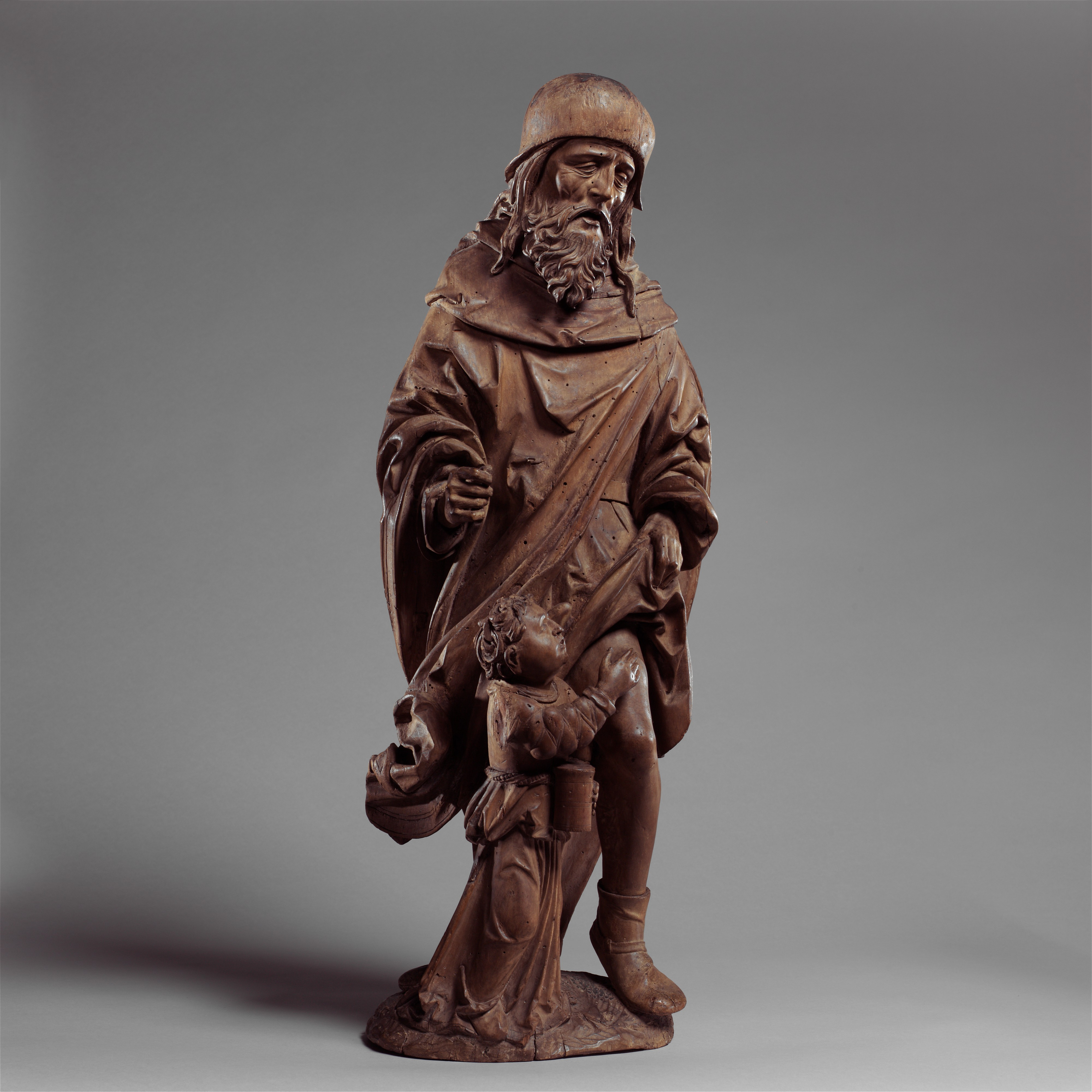 German; Statuette; Sculpture-Wood